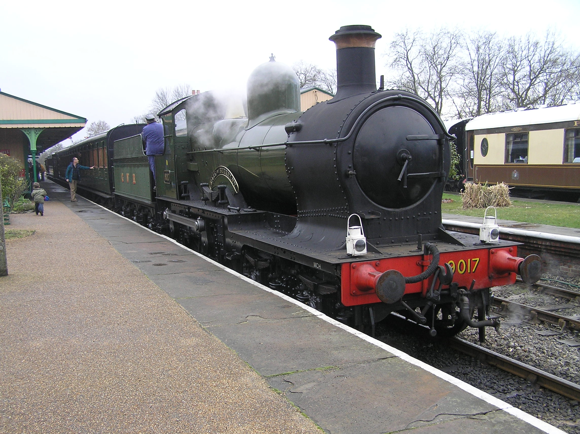 AUTHOR HARVEYQS TAKEN FEB 07